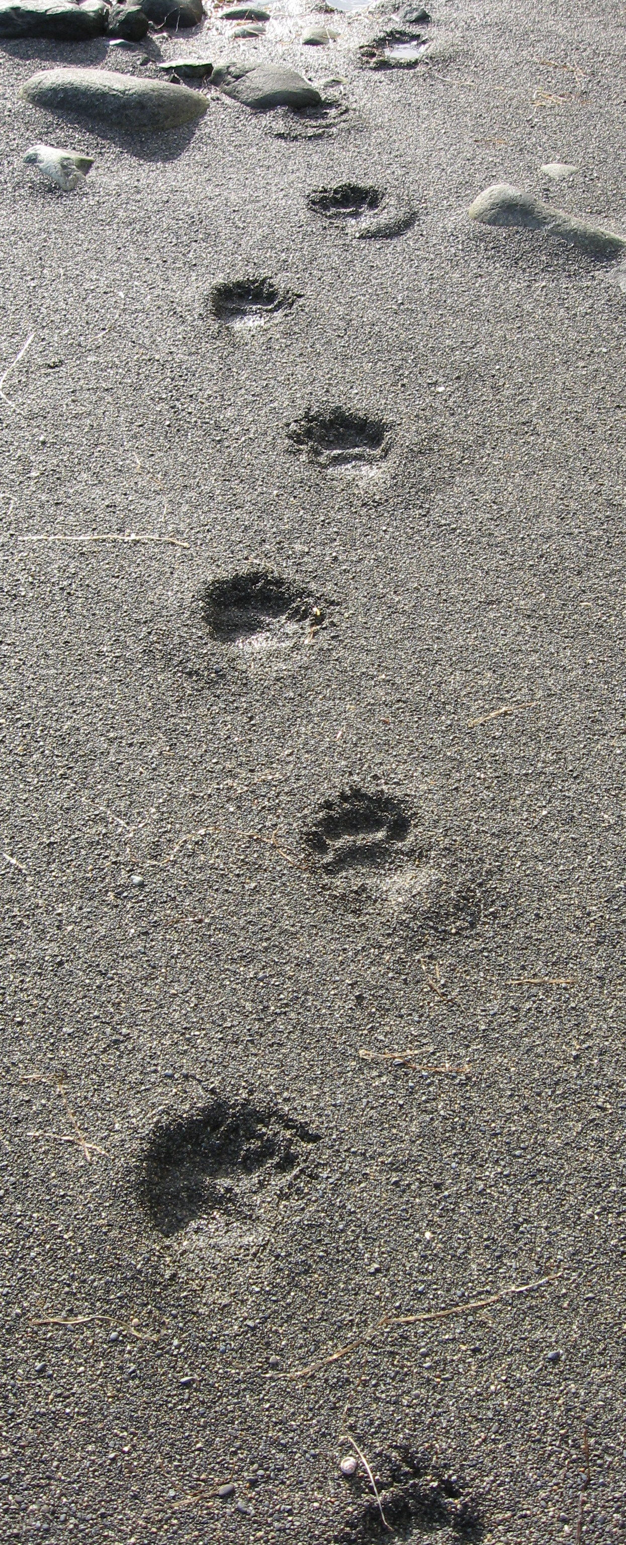 Tracks of Ursus americanus, the American black bear, as seen in Brooks Peninsula Provincial Park in British Columbia, Canada.